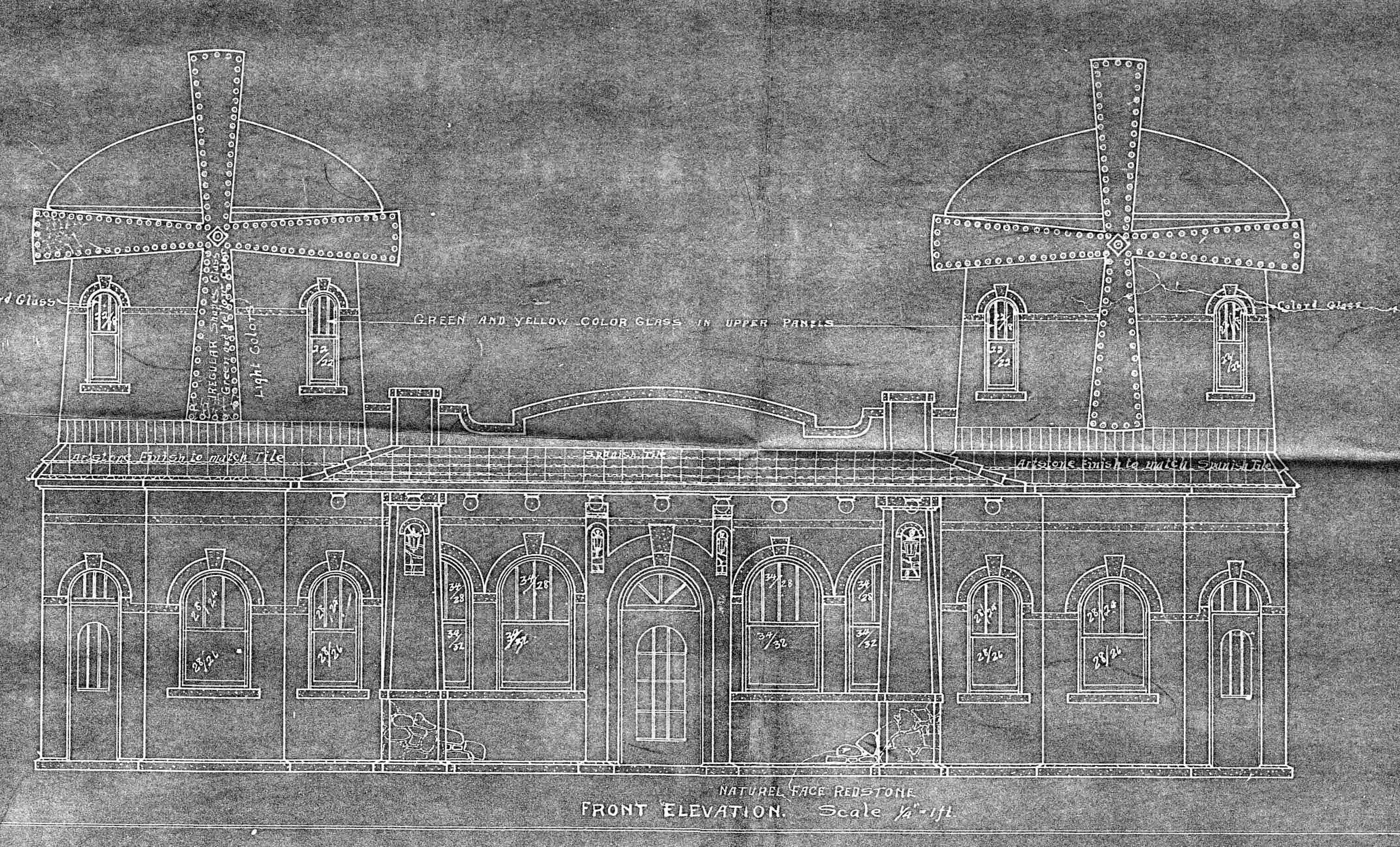 Original plans for the New Ulm Oil Company Service Station, New Ulm, Minnesota, USA. Scanned drawing.